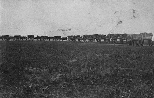 Ox cart train on Red River Trails